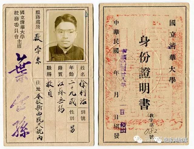 Leetsch Hsu's Tsinghua University faculty ID